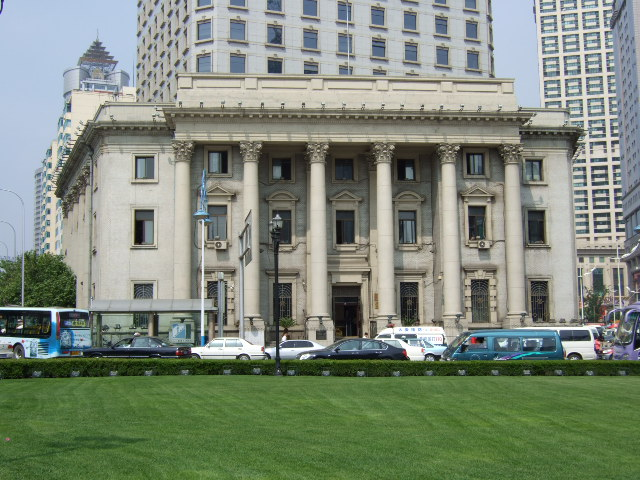 Former Dalian branch of Joseon Bank